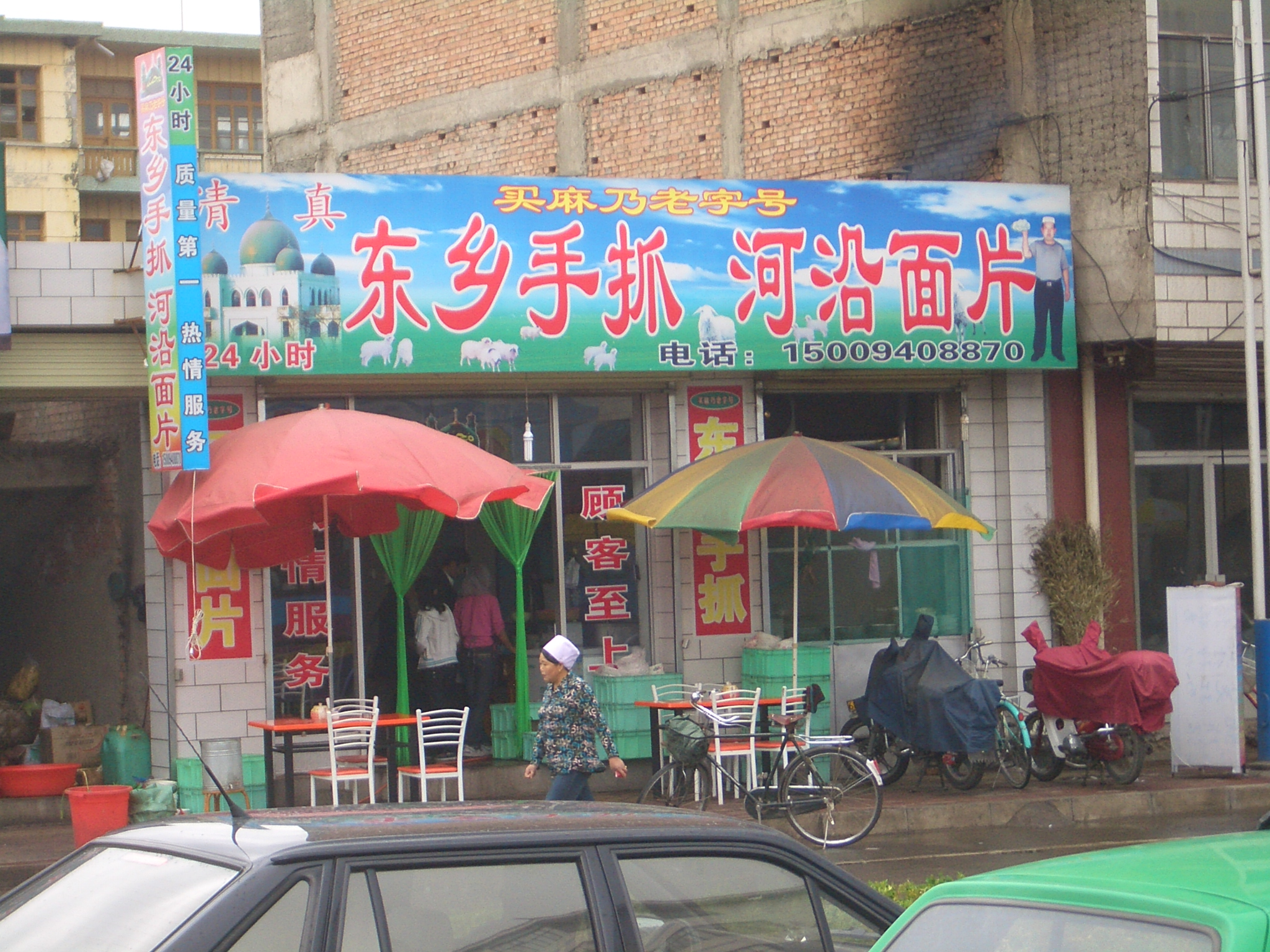 A restaurant advertising Dongxiang meat and bread dishes in the southwest of Linxia City, a few blocks from the Daxia River esplanade and Xin Xi Lu